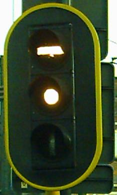 Tram signal in Flanders, Belgium